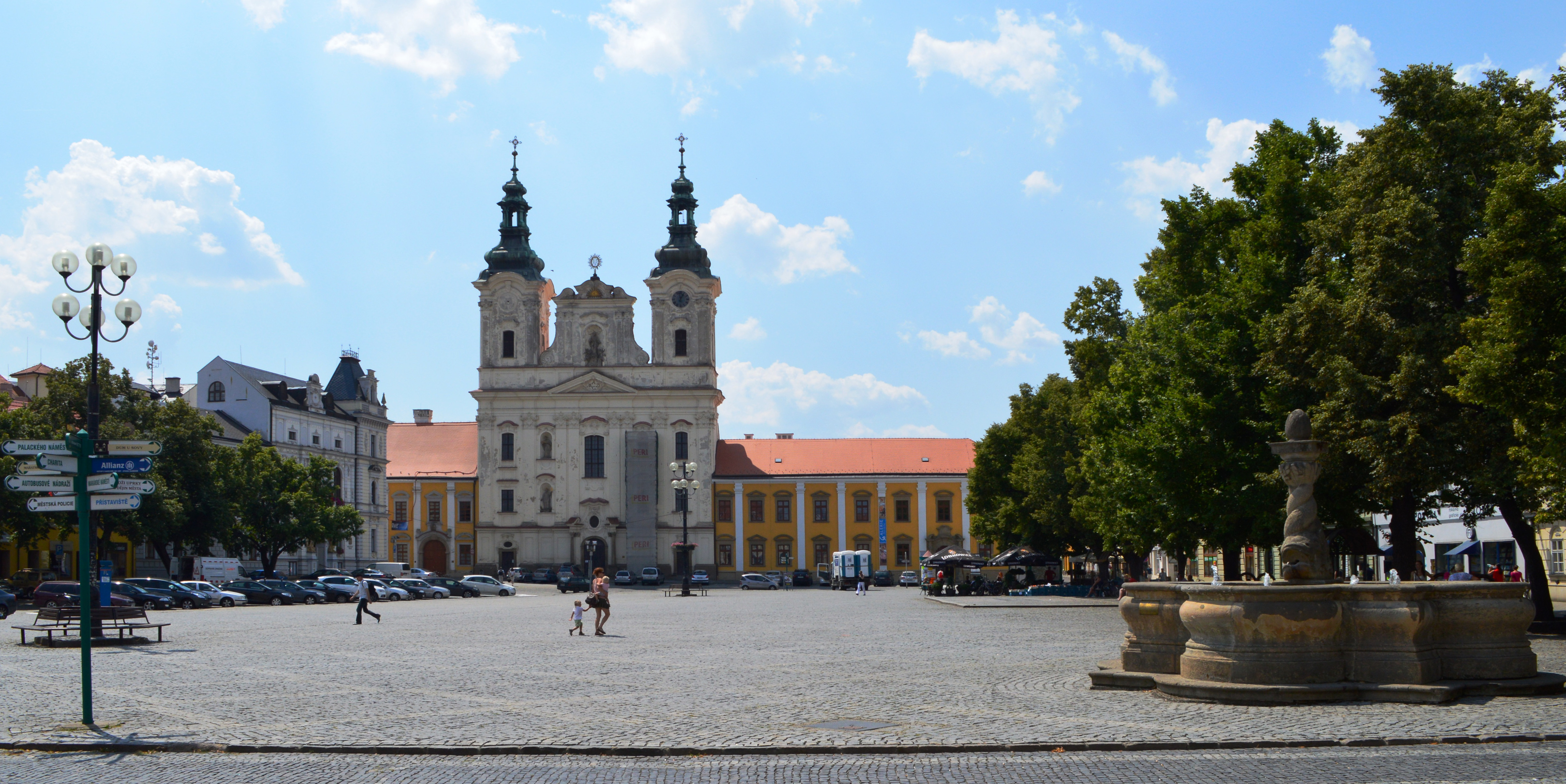 Uherské Hradiště is a town in the Zlín Region of the Czech Republic, located 23 km (14 mi) southwest of Zlín on the Morava River. The town was founded in 1257 by the Czech King Otakar II and is the centre of Moravian Slovakia (Slovácko), a region known for its characteristic folklore, music, costumes, traditions and production of wine. The Scotch Mist Gallery contains many photographs of historic buildings, monuments and memorials of Poland and beyond.